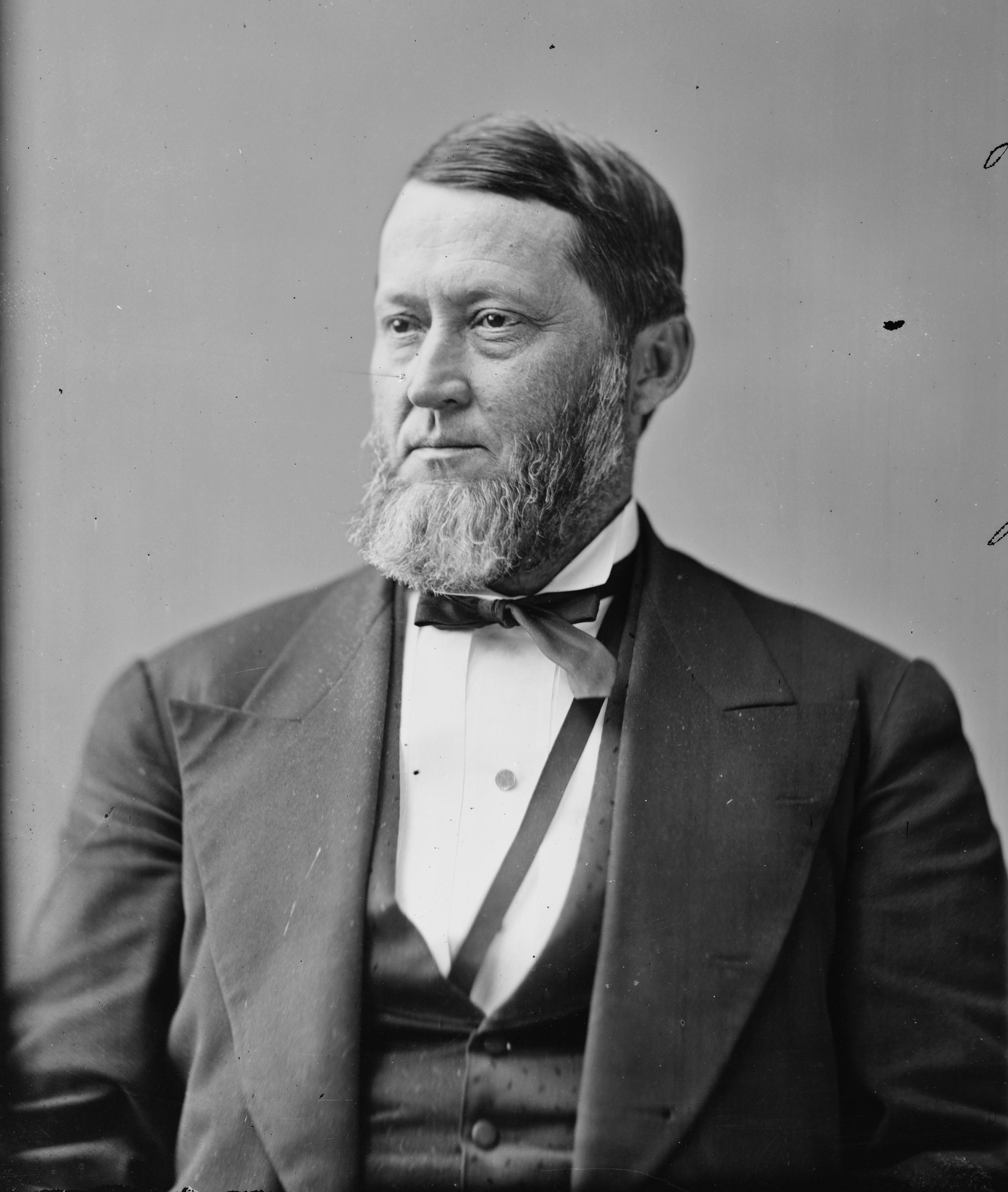 Jacob Turney. Library of Congress description: "Turney, Hon. Jacob of PA".